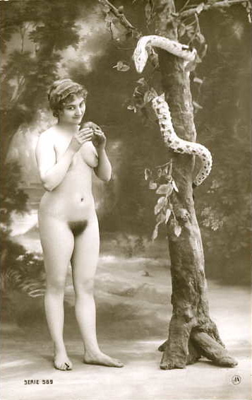 Eve being tempted to eat the forbidden fruit. French postcard labelled JA SERIE 589.